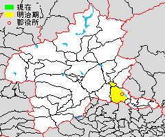 Map showing extent of former Nitta District, Gunma, Japan